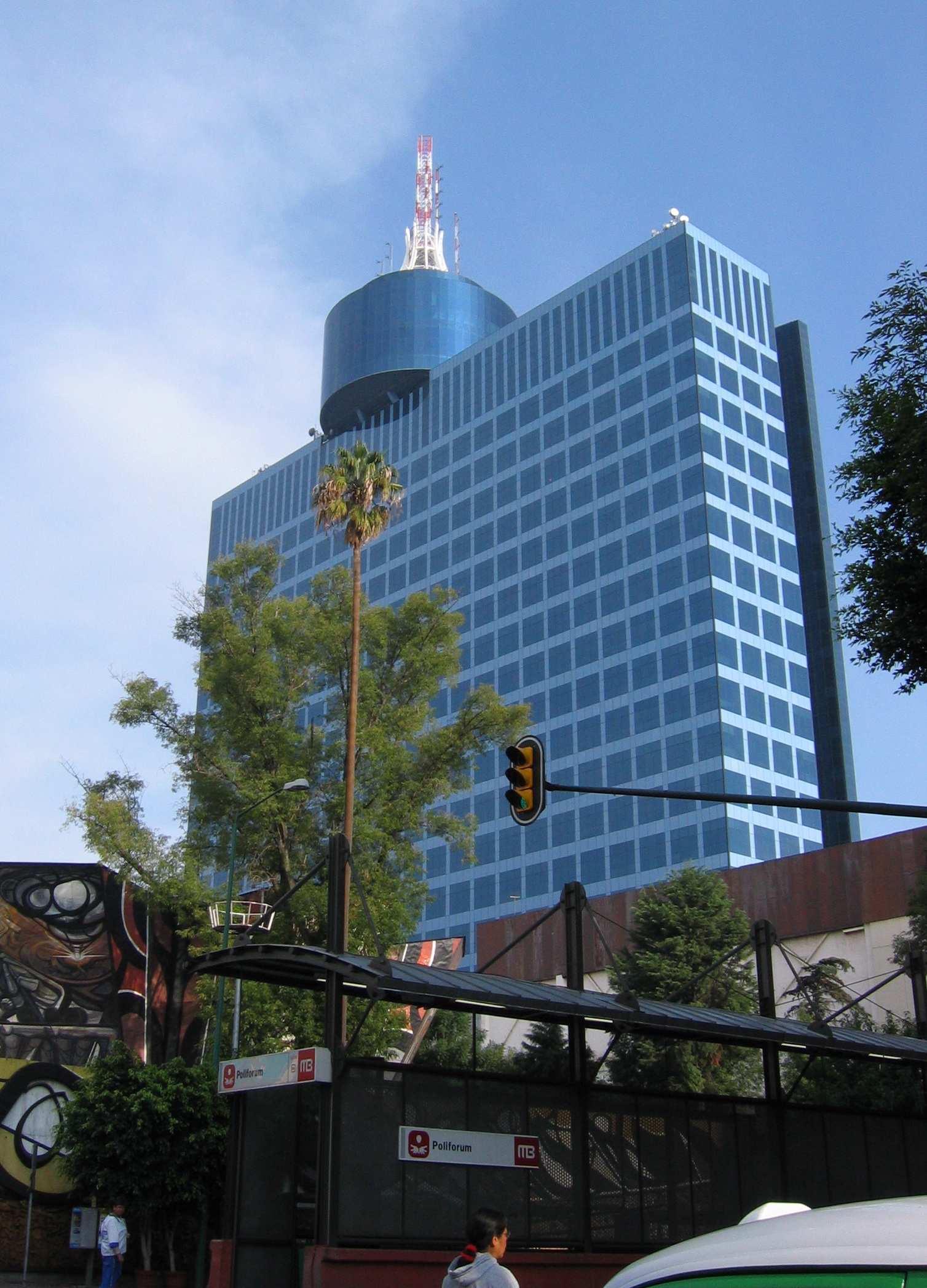 WTC Mexico tower, Polyforum Cultural Siqueiros and Metrobus Polyforum, in Mexico City